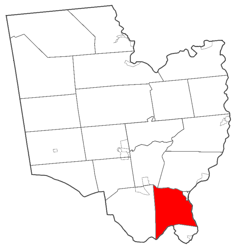 Map of Saratoga County highlighting Halfmoon